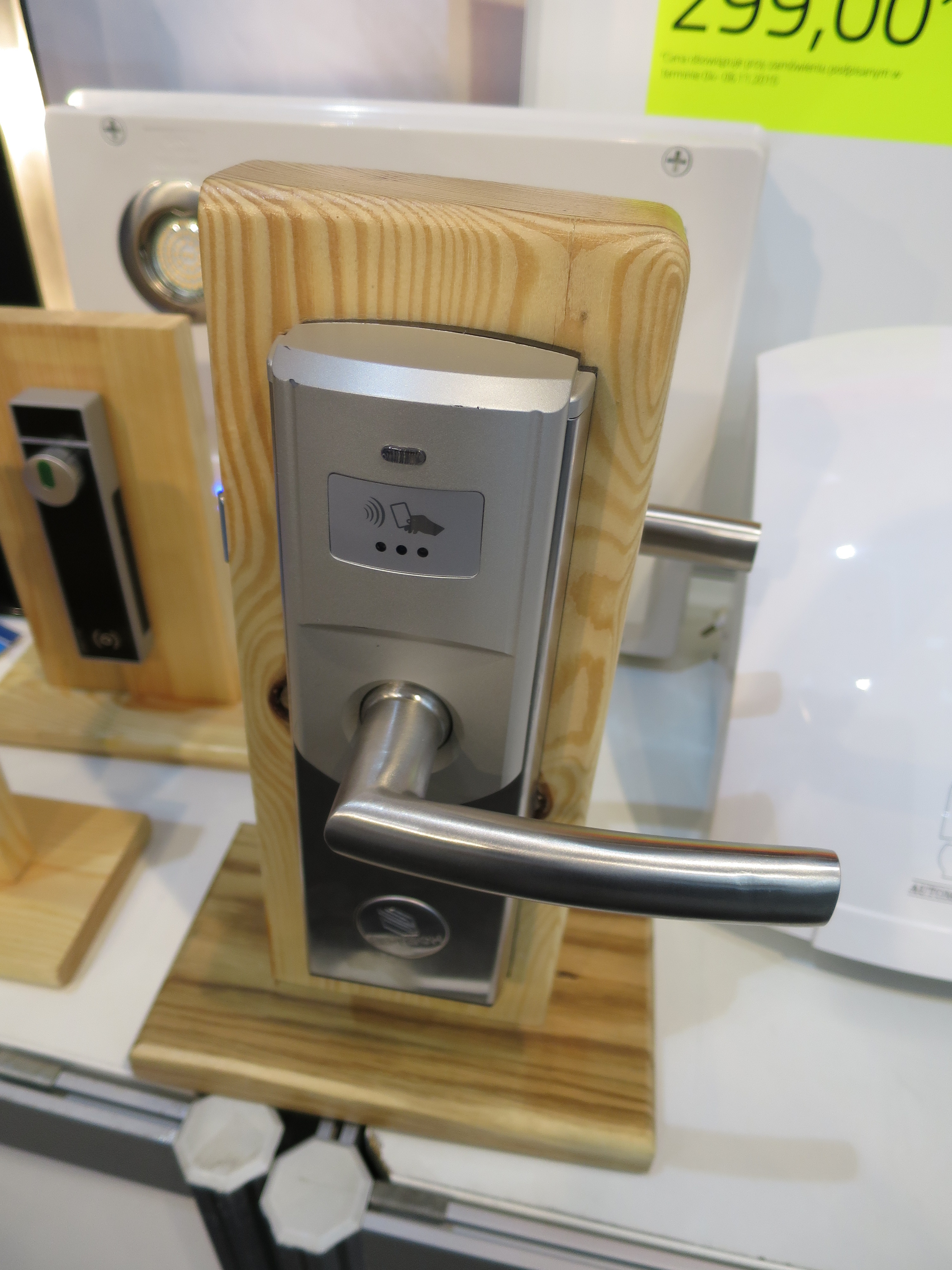 Zamek hotelowy The making of this document was supported by Wikimedia Polska Association, within Wikigrant no. WG 2015-48. English | polski | +/−